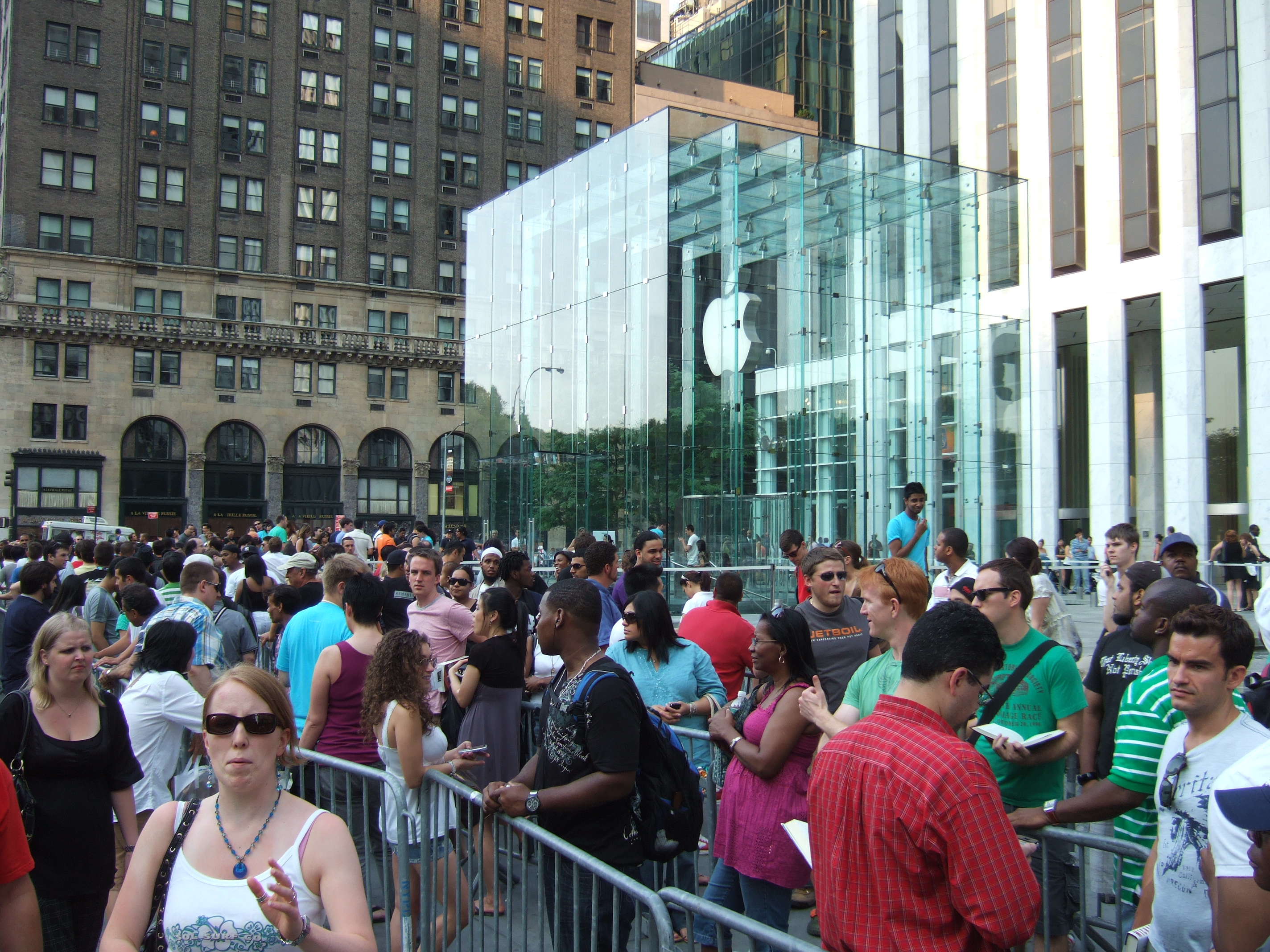 A ridiculous line of people waiting for the iPhone 3G outside of the Apple Store on 5th Ave. between 58th St. and 59th St., NYC, July 12, 2008. I was not in the line. pictured: the Apple Store entrance